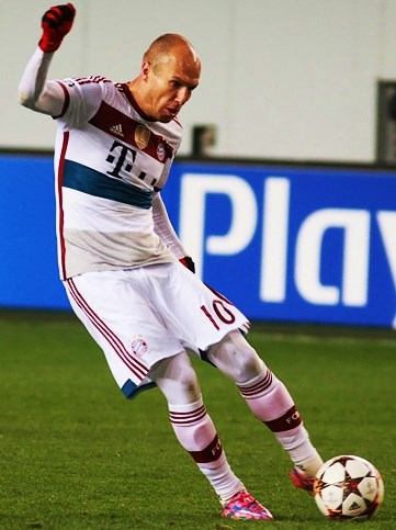 Arjen Robben